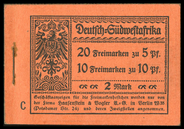 Cover of postage stamps booklet of German South-West Africa, SMY Hohenzollern issue, 5 and 10 pfennigs, 1913